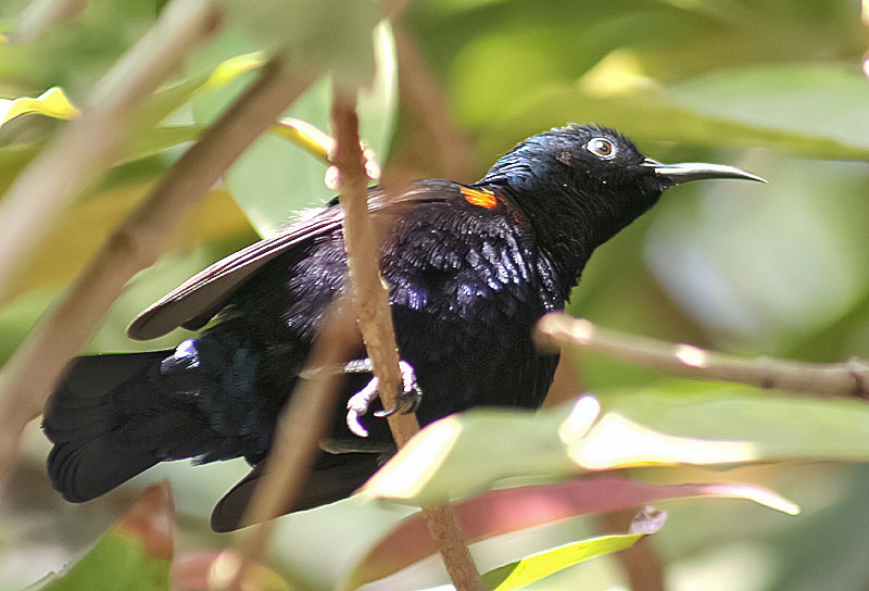 Purple Sunbird Nectarinia asiatica in Kolkata, West Bengal, India.